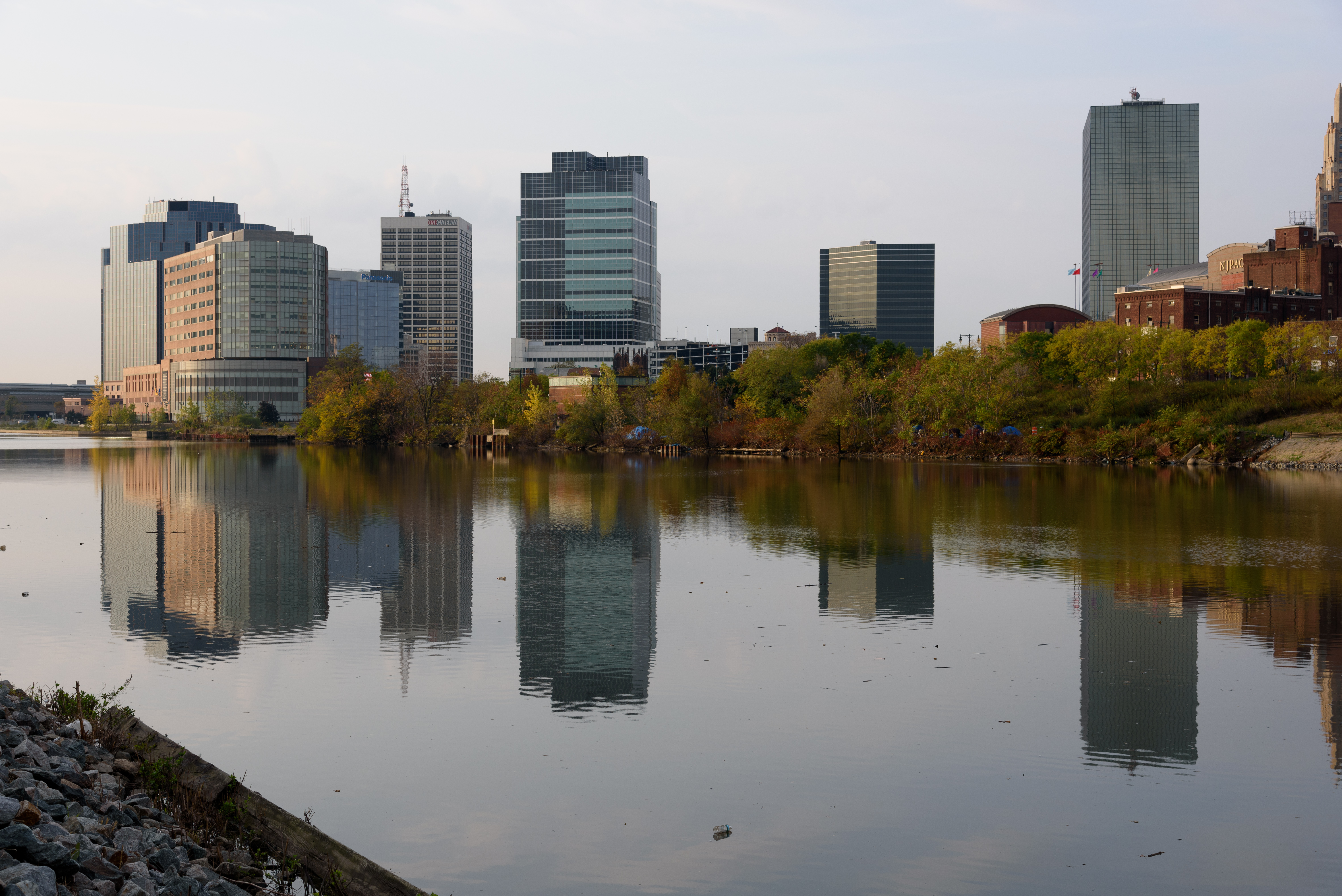 Newark skyline as seen Harrison, New Jersey, site of Newark Riverfront Park